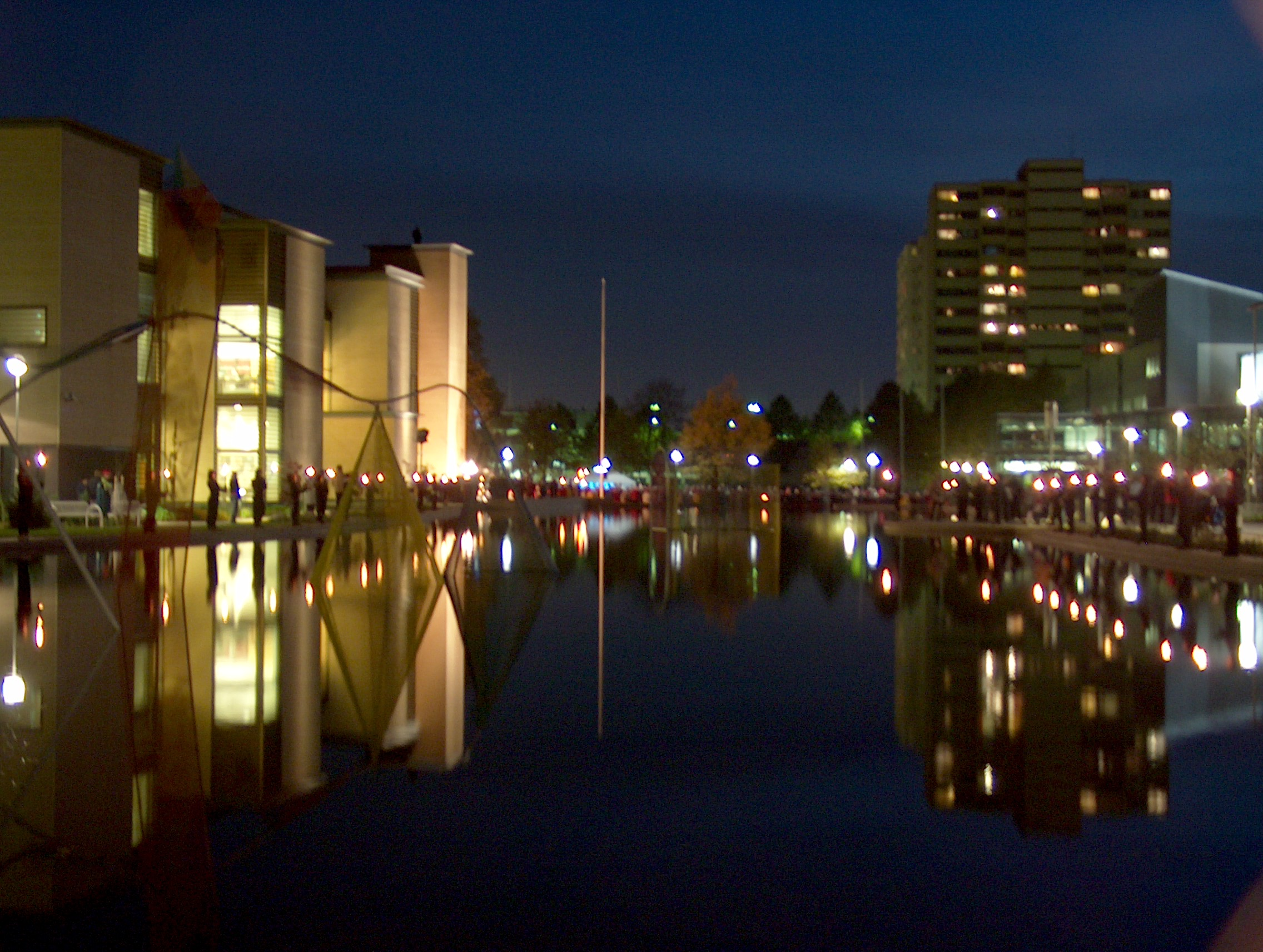 The opening ceremony of the Central Park of Kerava